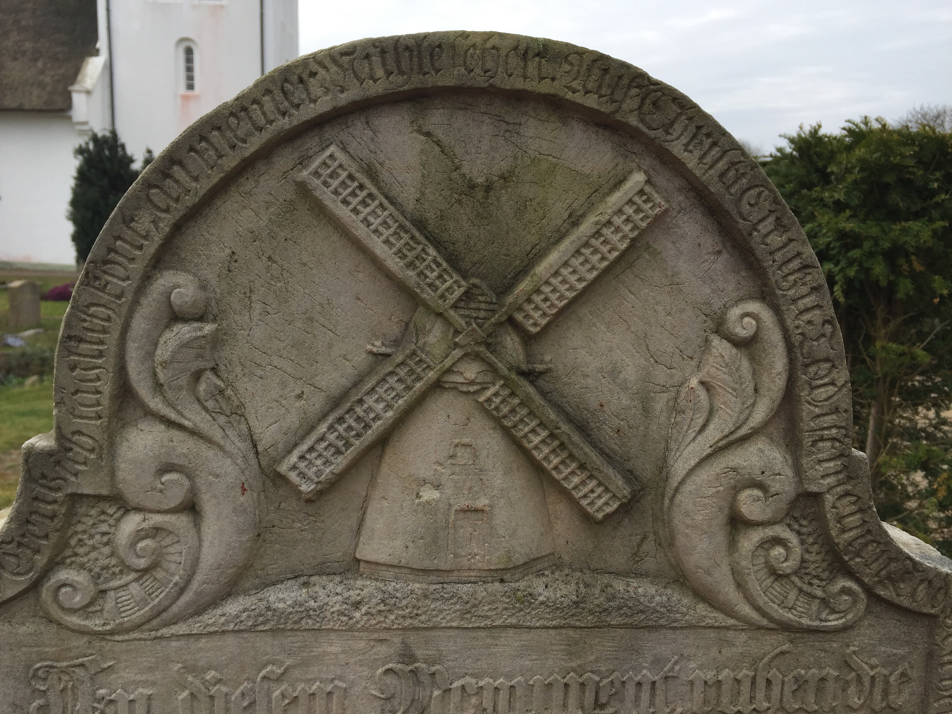 The making of this document was supported by the Community-Budget of Wikimedia Germany. Gravestones in Amrum